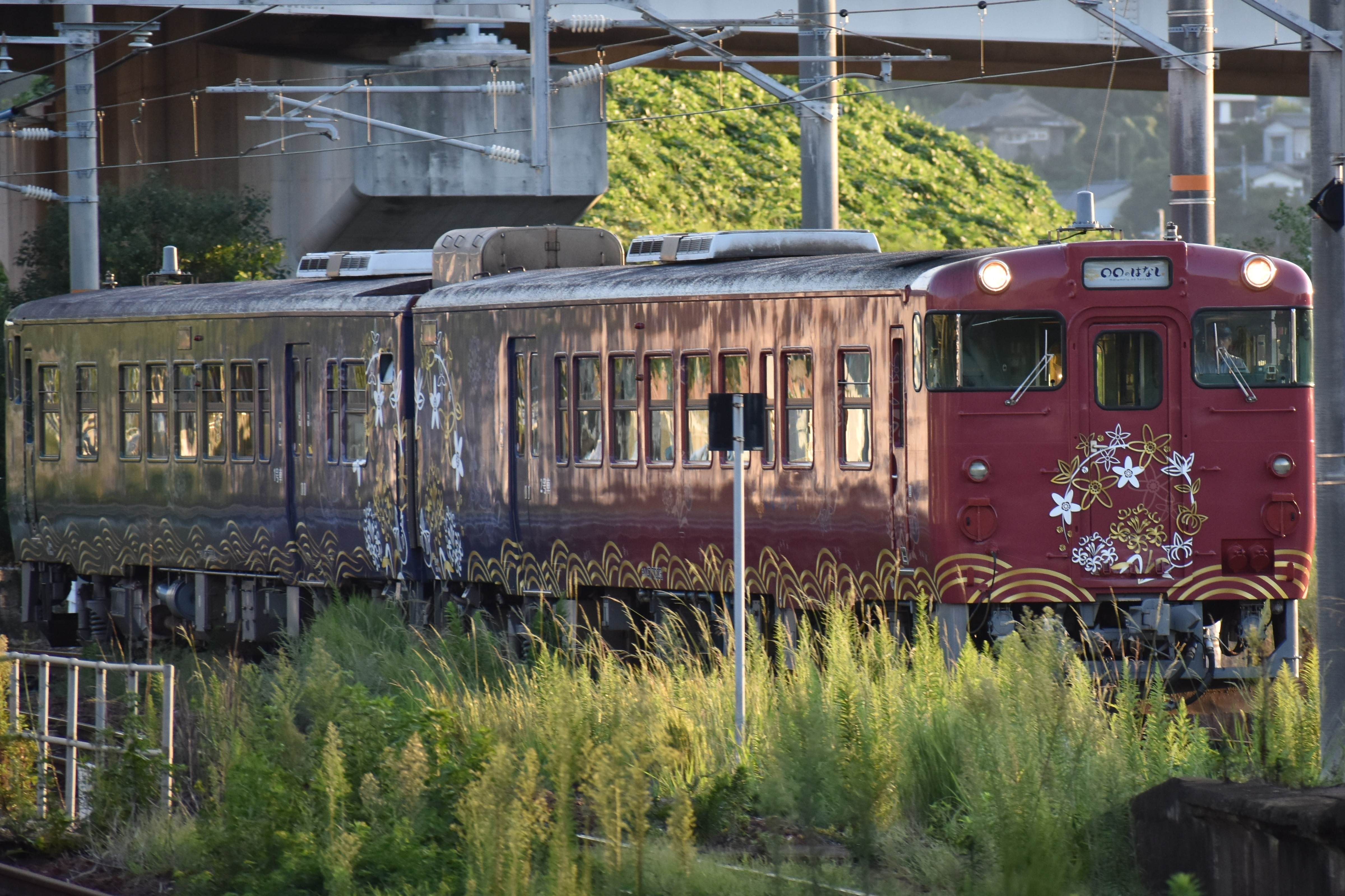 The JR West OO no Hanashi KiHa 47 DMU excursion train at Hatabu Station in Yamaguchi Prefecture, Japan